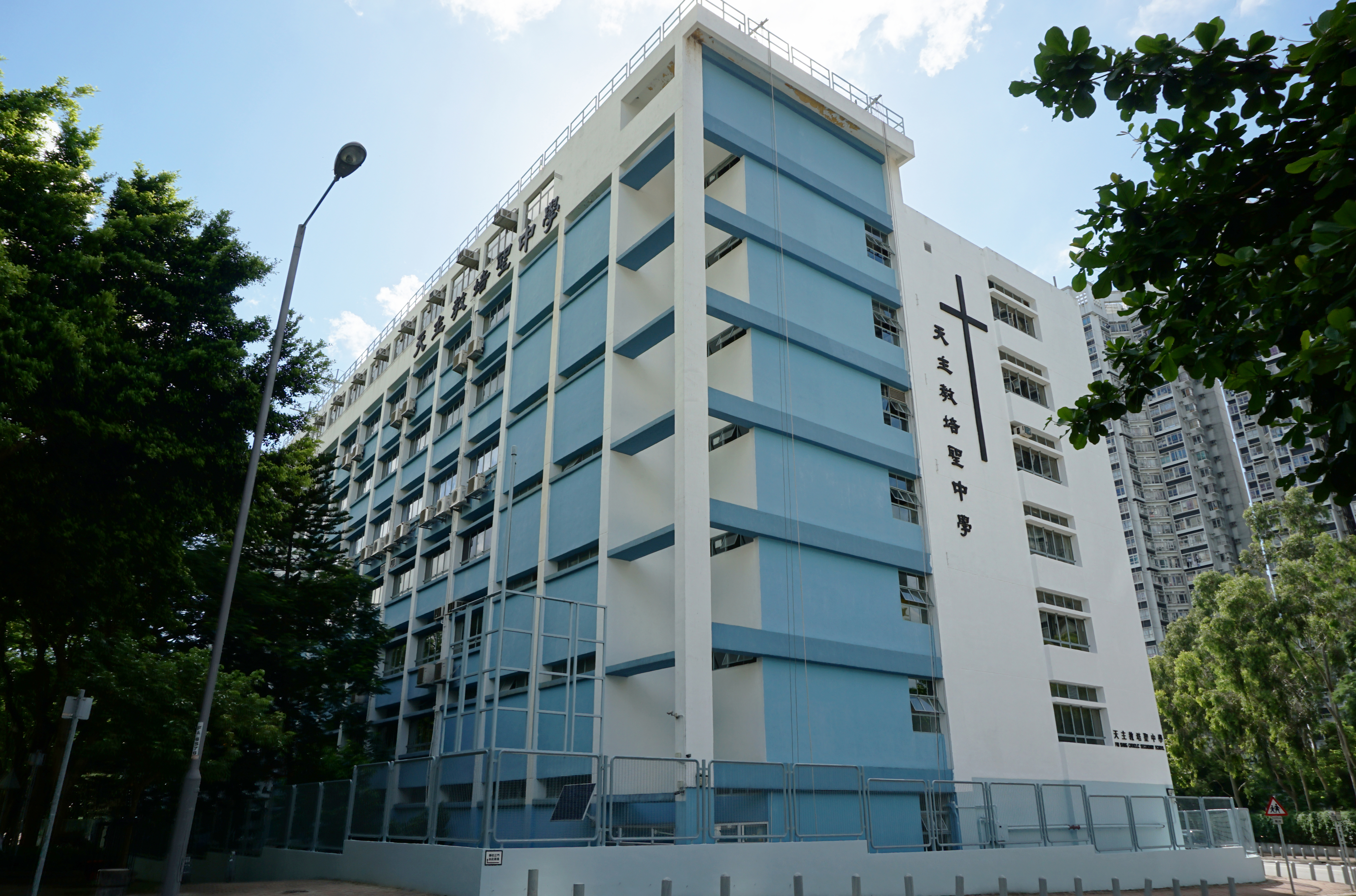 Pui Shing Catholic Secondary School in Tin Shui Wai, Hong Kong.